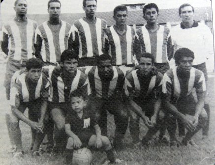 C.D. Motagua 1968